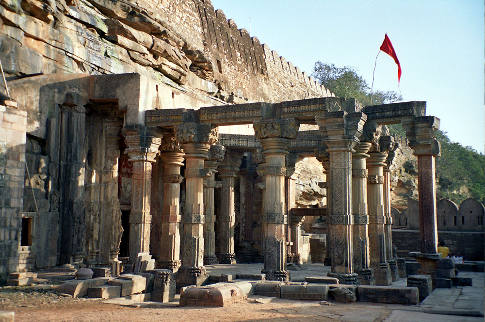 Nilkanth temple at the Kalinjar Fort, India